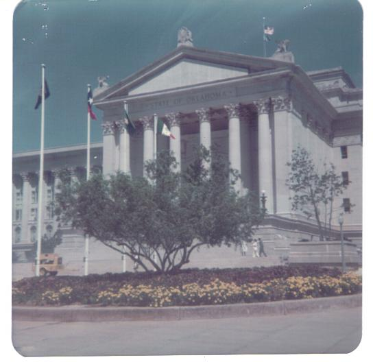 I took picture of OK state capitol entrance in May 1972, with Kodak camera.